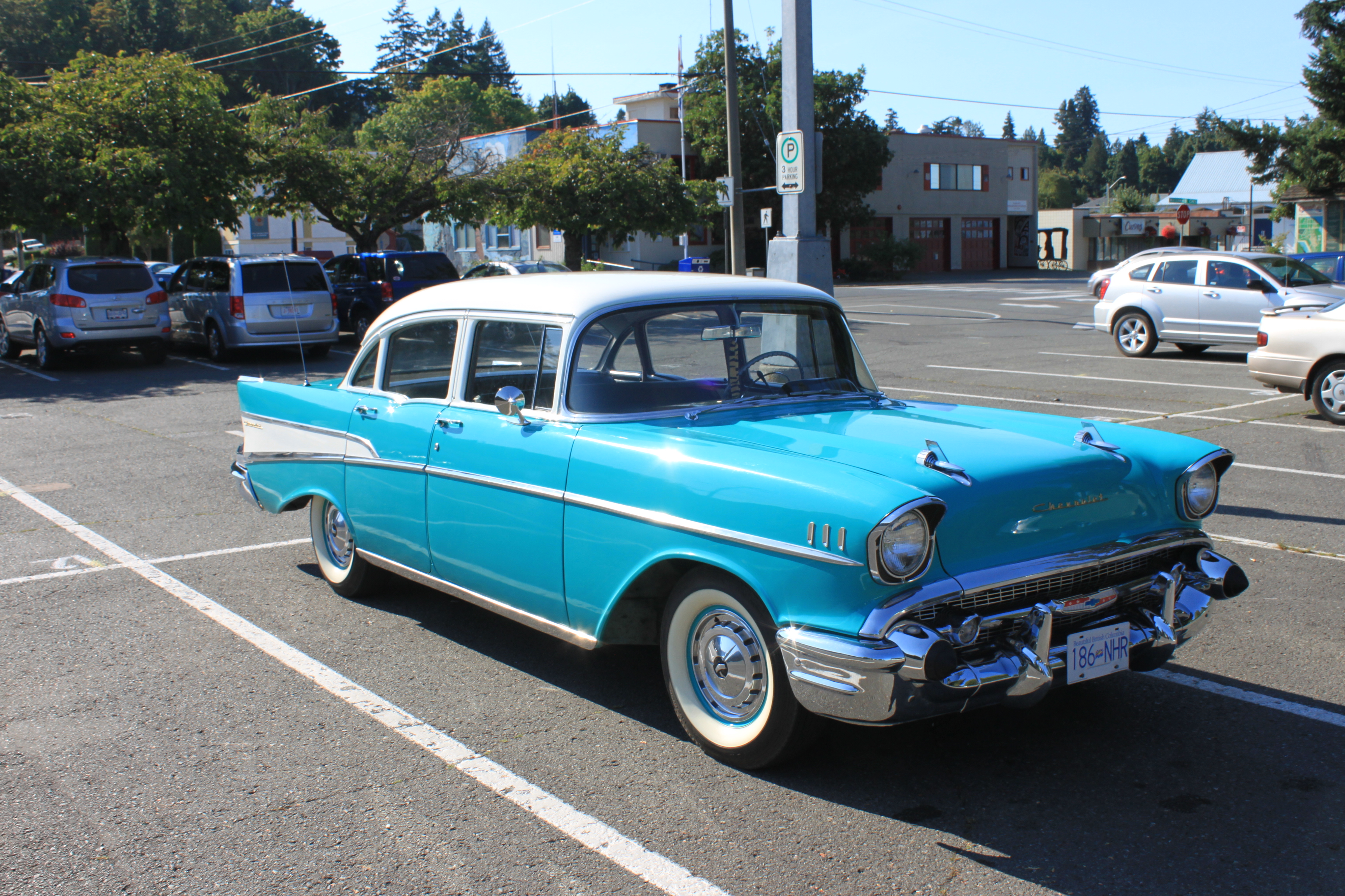 1957 Chevrolet Bel Air 4-door sedan